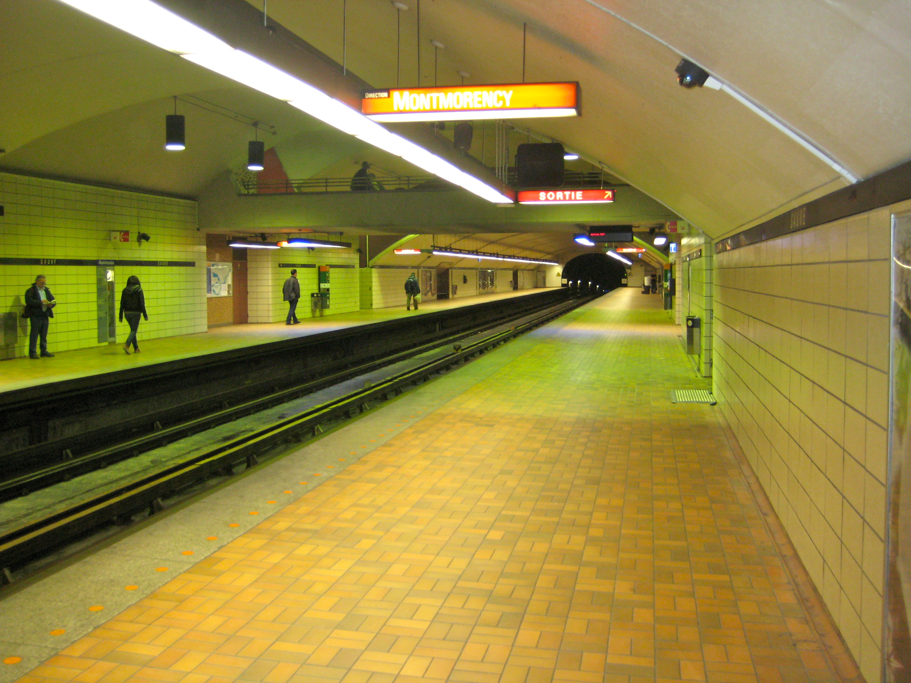 Sauvé Metro Station Platform